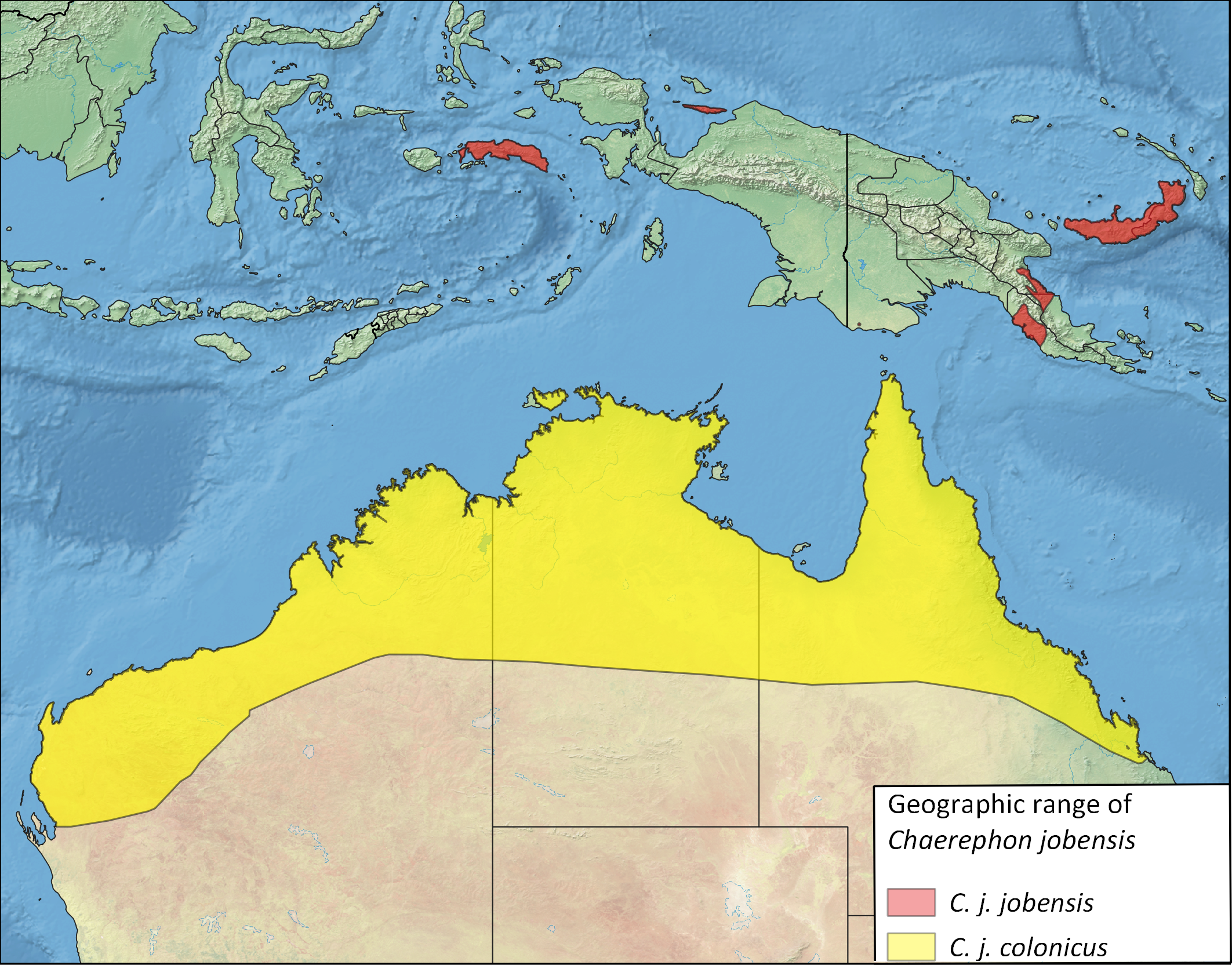 Geographic range of Chaerephon jobensis